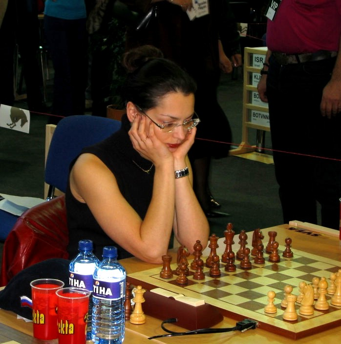 Alexandra Kosteniuk at Bled 2002